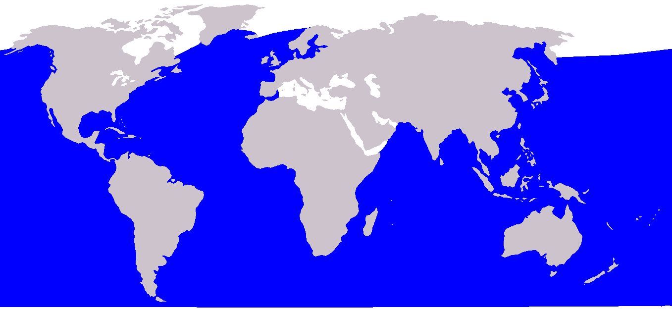 Authors: User:Pcb21 after User:Vardion and later edited by User:Chris huh, see Wikipedia:WikiProject Cetaceans.